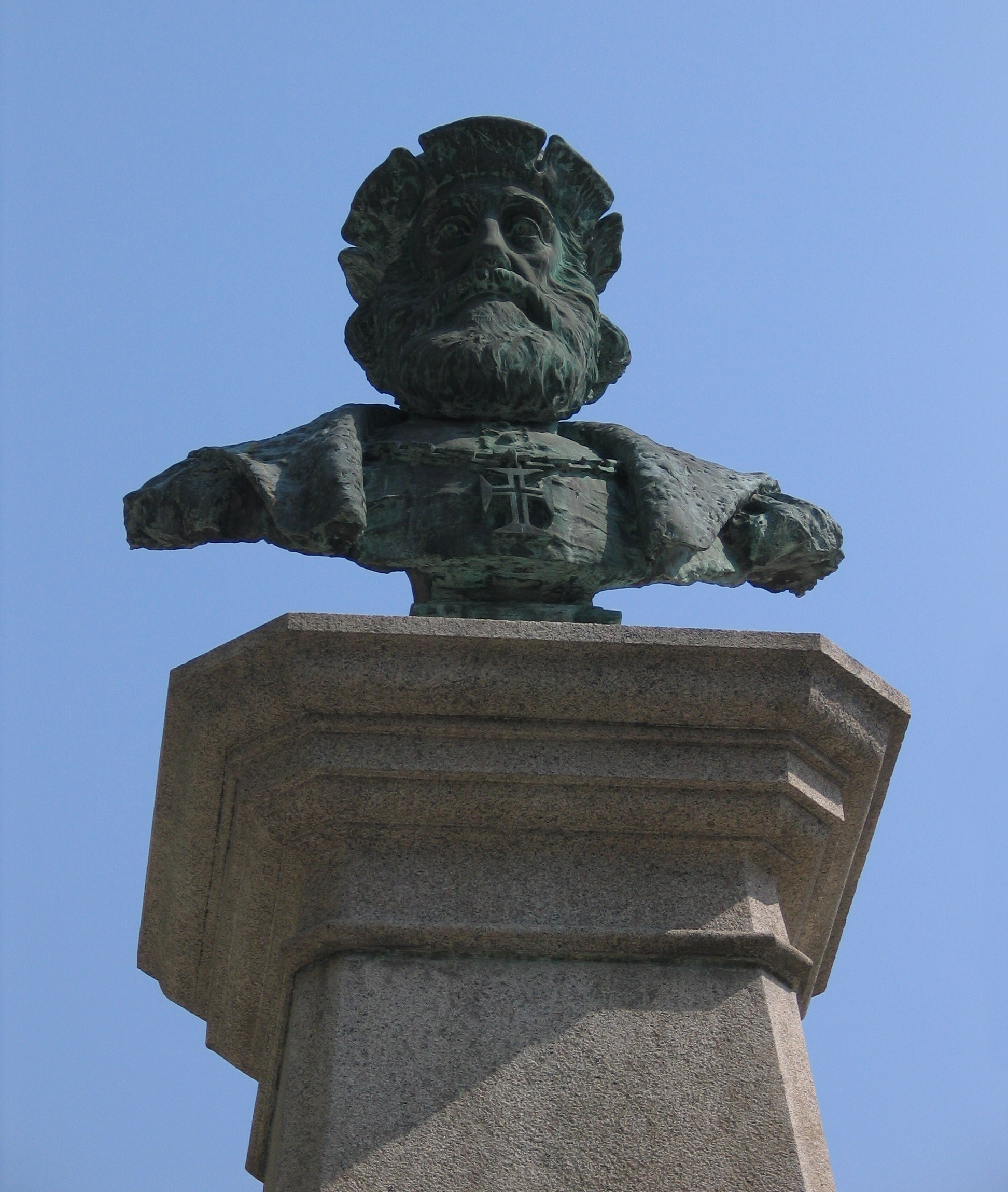 Statue of Vasco da Gama; located in Jardim Vasco da Gama in Macao Source: taken by Glio